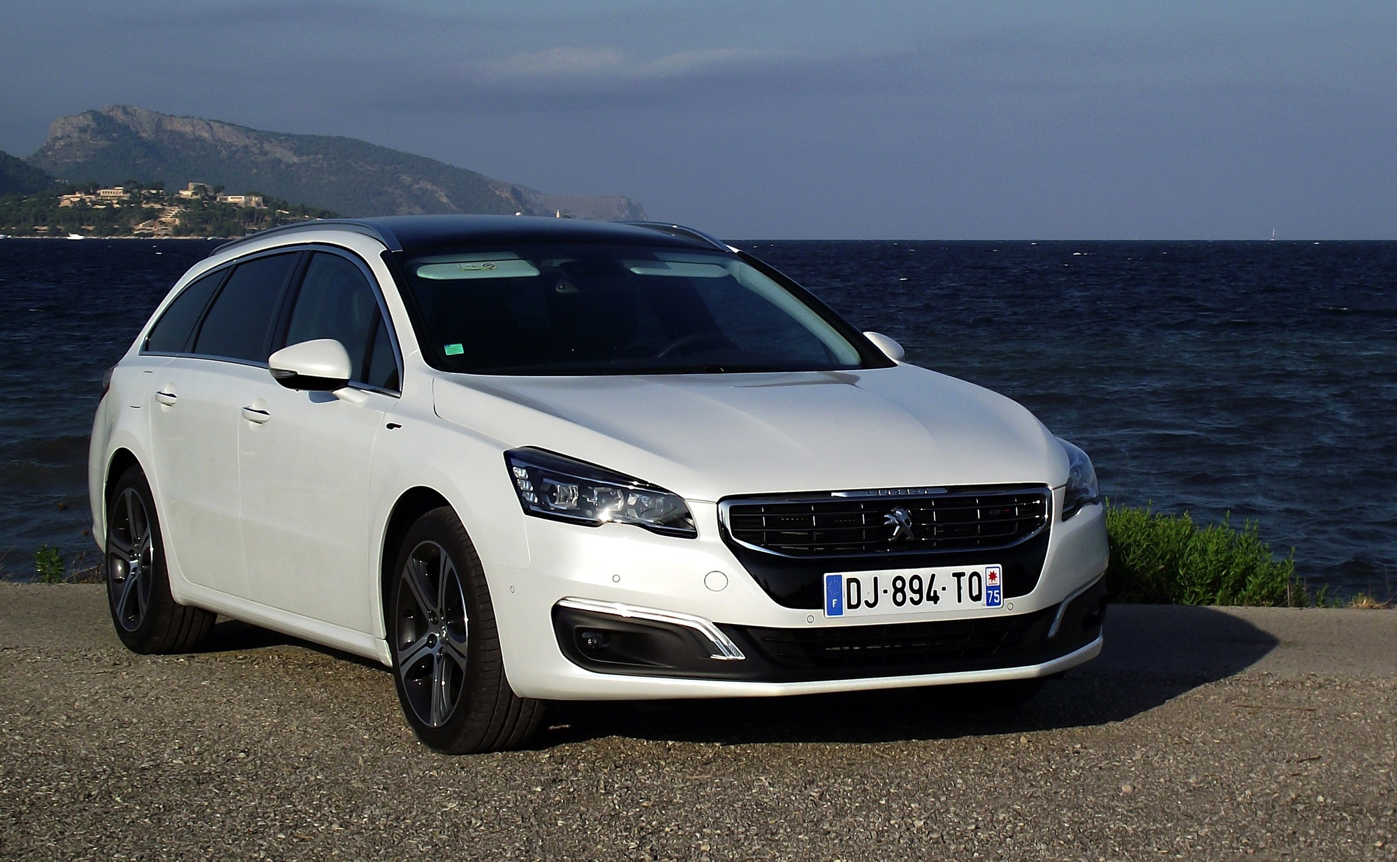 Peugeot 508 SW GT 2.2 HDi 200 Facelift Front View